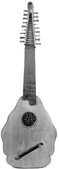 String musical instrument